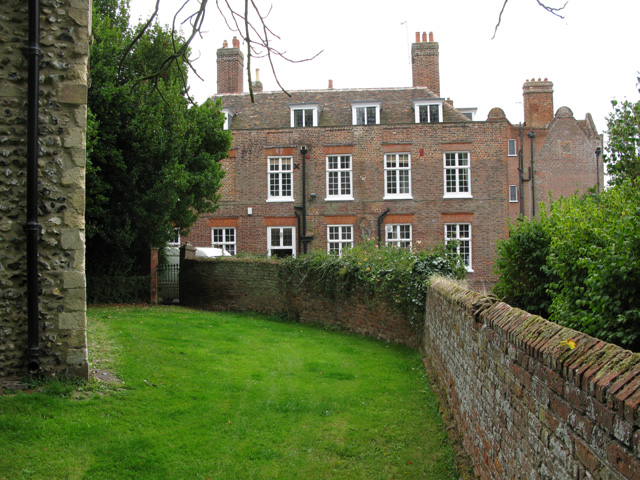 Knowlton Court. Goodnestone, Kent